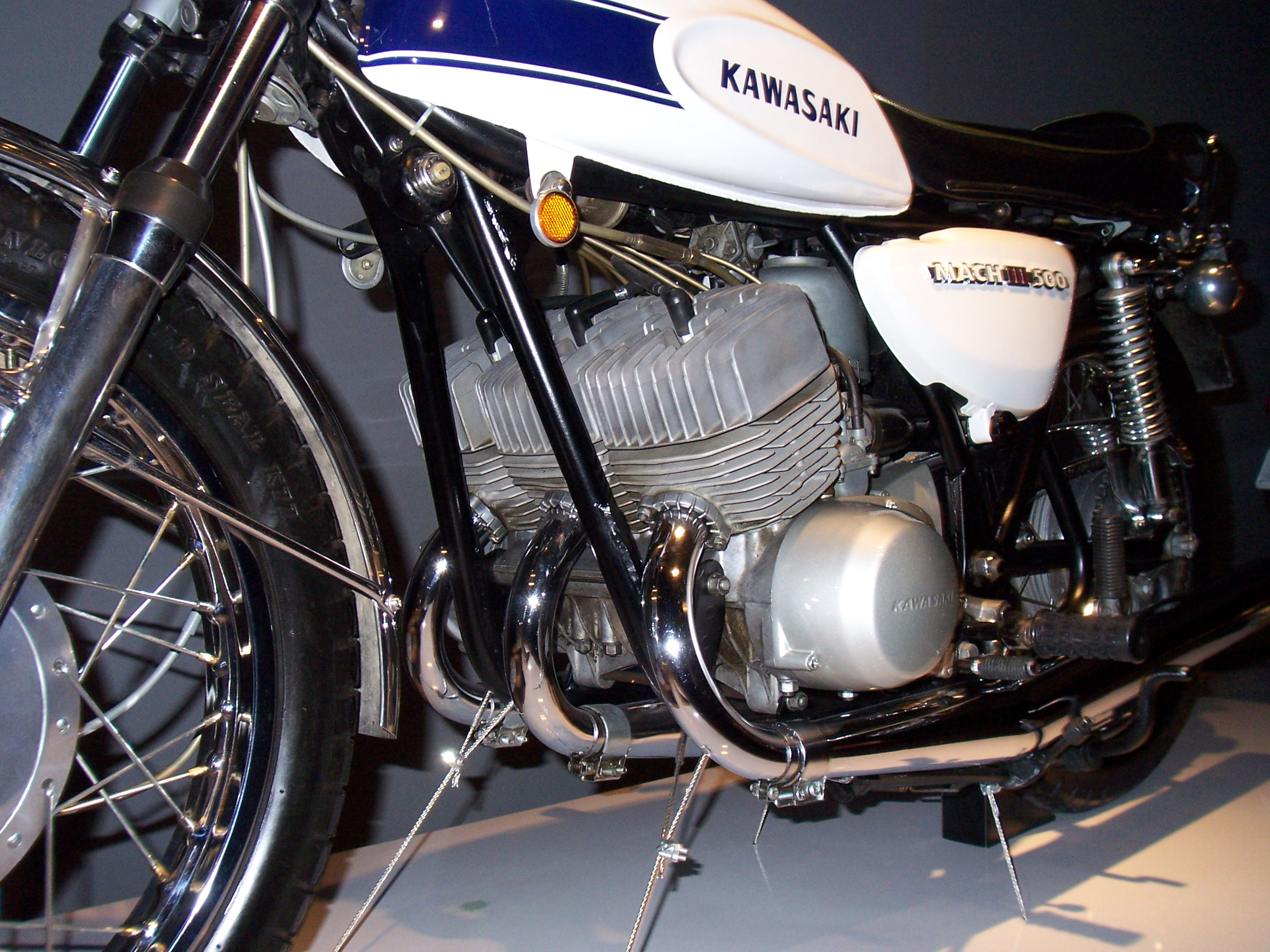 Kawasaki H1 Mach III 500cc